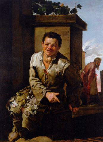 Painting of the cynic philosopher Crates of Thebes, made by a painter from the circle of Domenico Feti